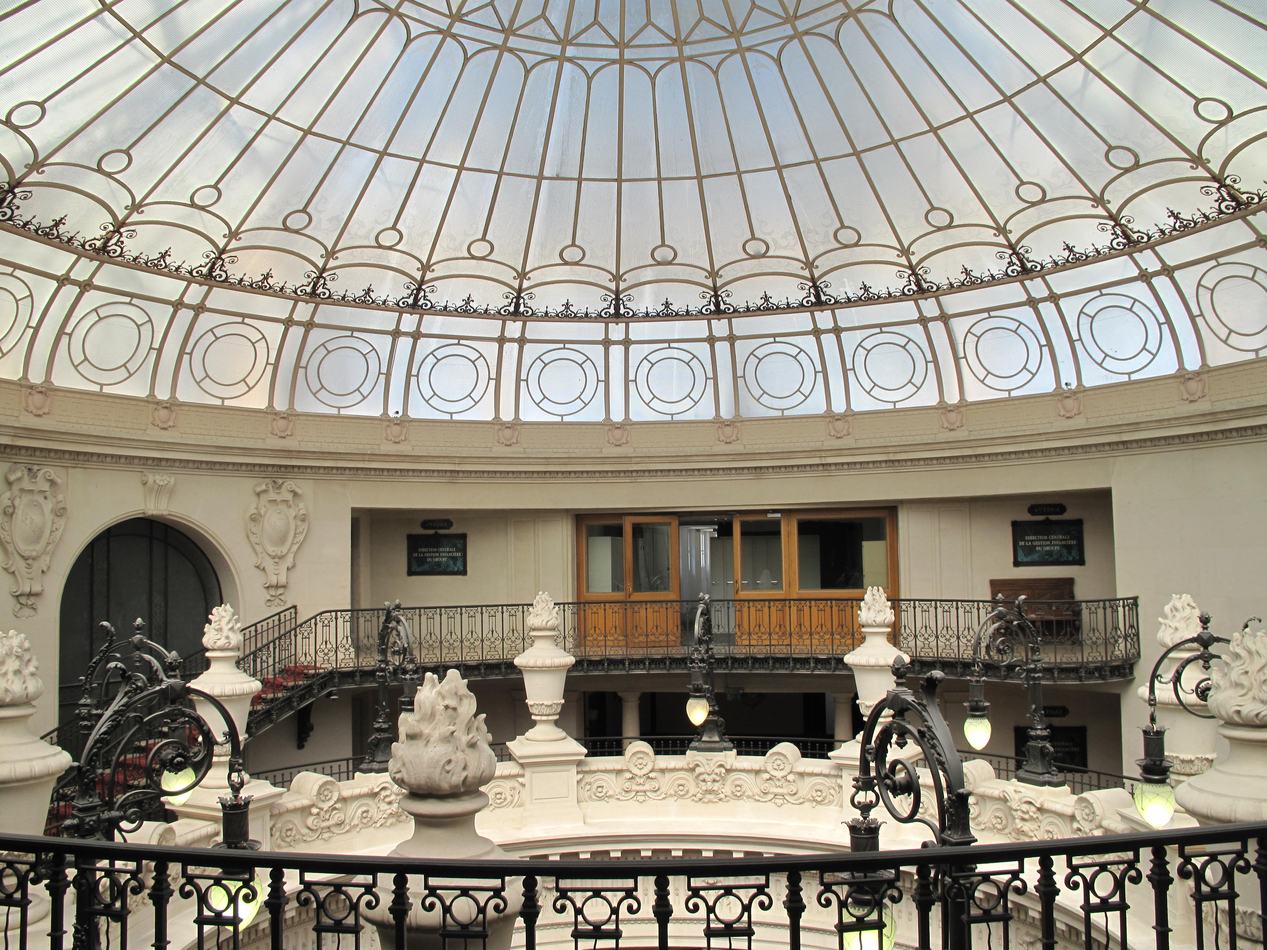 Stairs of the Credit Lyonnais Head Office : 4th floor (19 Boulevard des Italiens, Paris 2nd arr.)